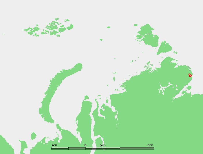 Nordensjelda Islands